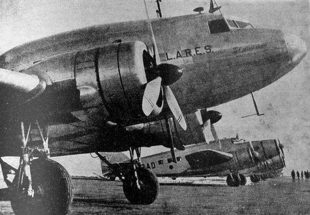 Douglas D.C.3 and Savoia Marchetti 83 in L.A.R.E.S service